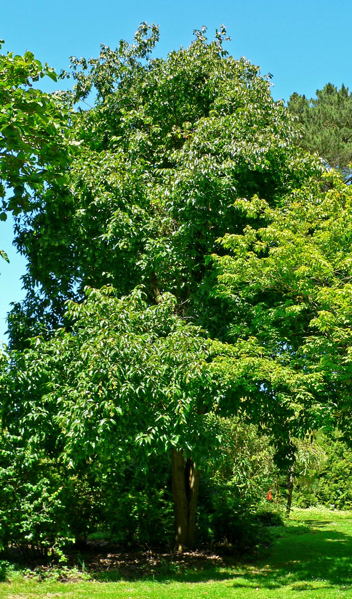 Photo of Acer laevigatum at the San Francisco Botanical Garden